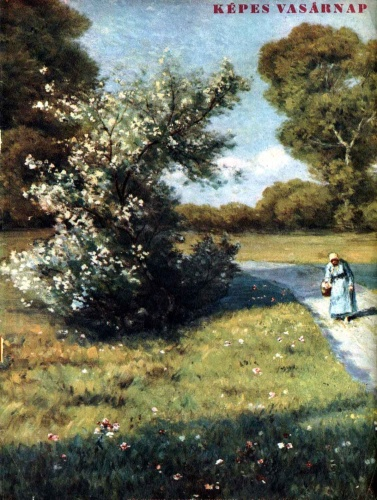 Long shadows